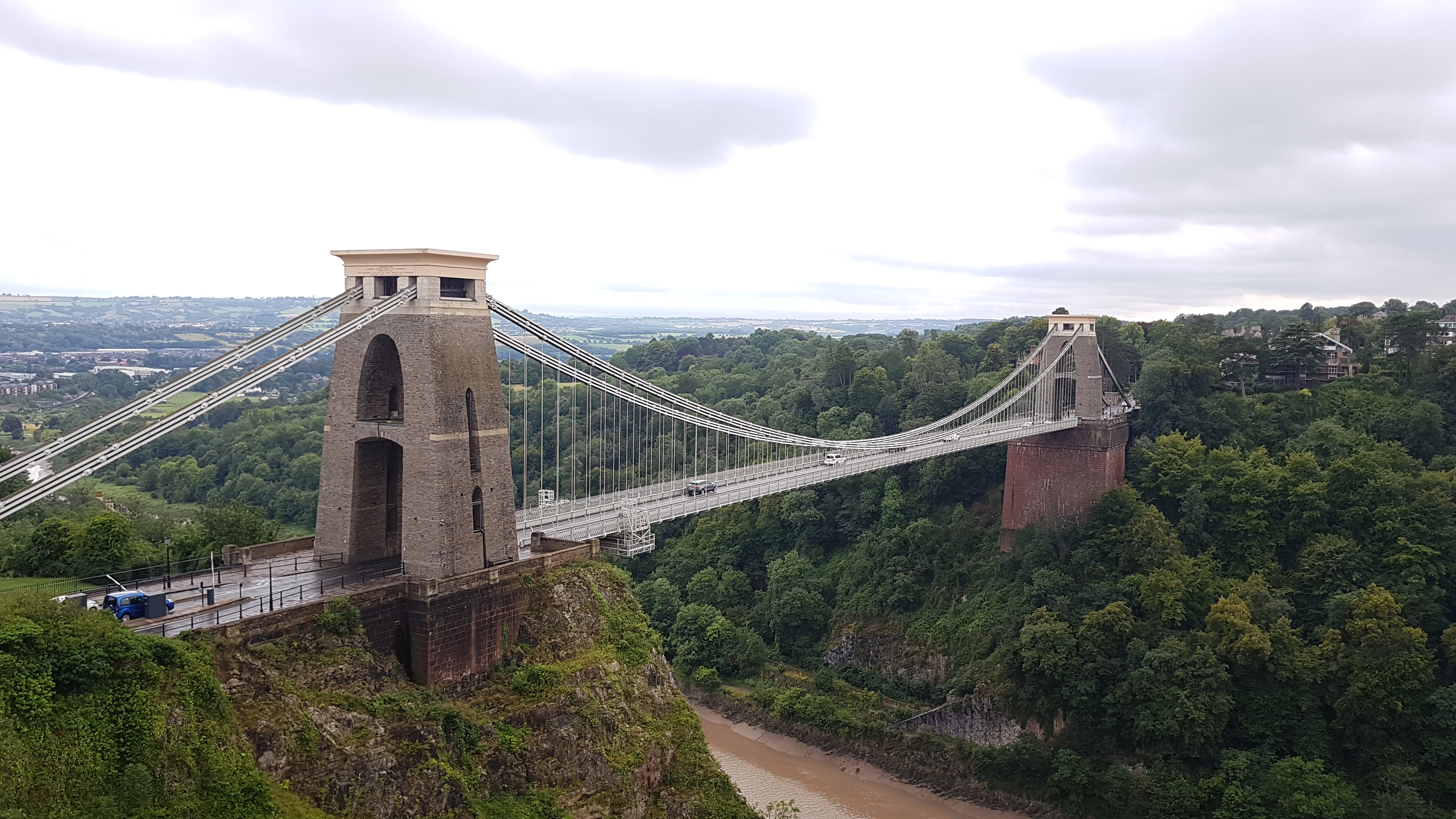 Clifton Suspension Bridge